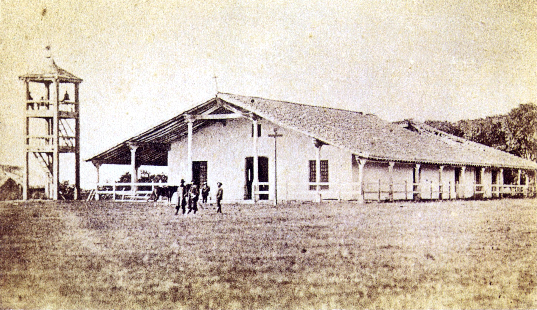 A church in the Paraguayan town of Pilar after its capture by the allies, c.1868